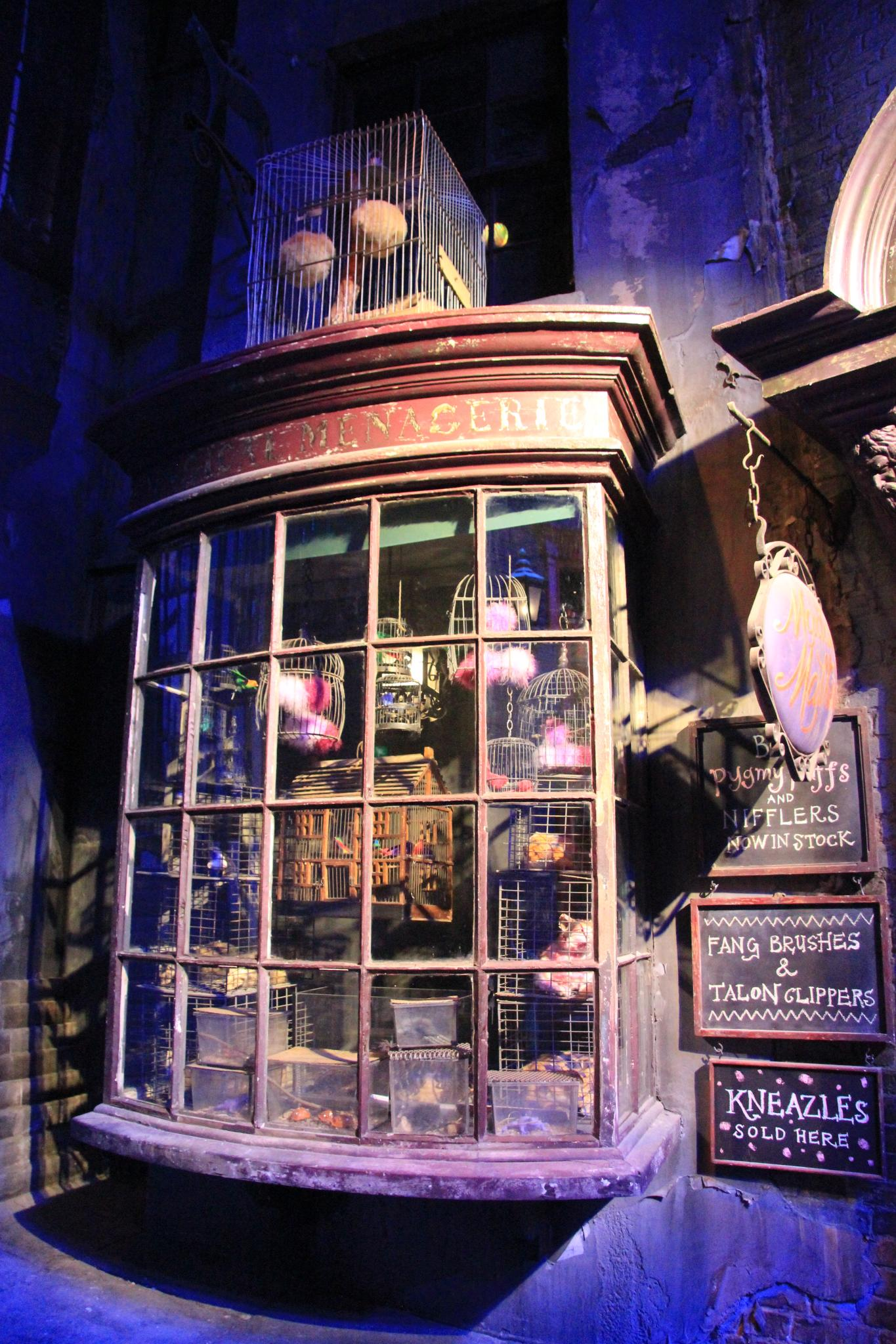 Warner Bros. Studio Tour London: The Making of Harry Potter.